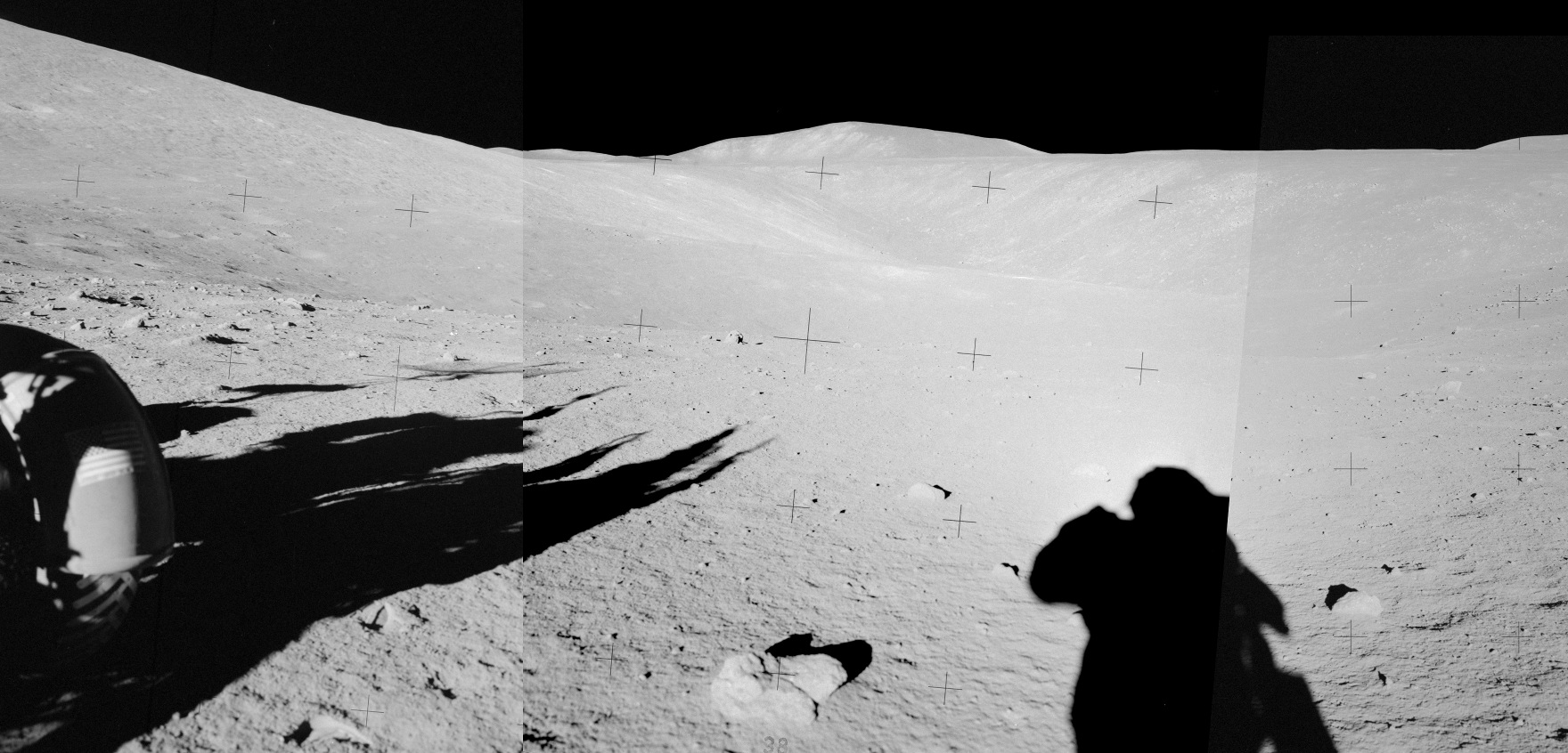 Mosaic of three Hasselblad camera frames showing part of Elbow crater on the moon. Part of the lunar rover is visible, as is the shadow of astronaut Jim Irwin. This is at Station 1 of the Apollo 15 mission.